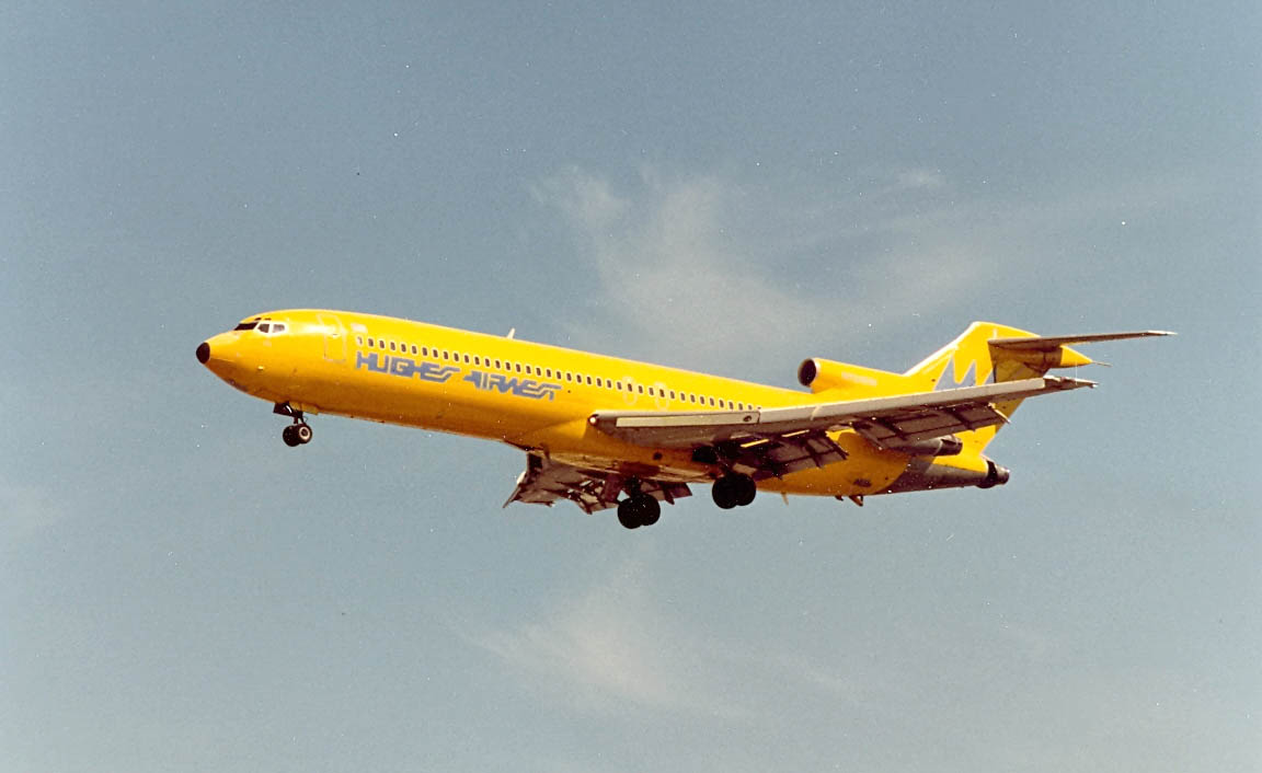 Landing at San Jose, CA on January 29, 1980.